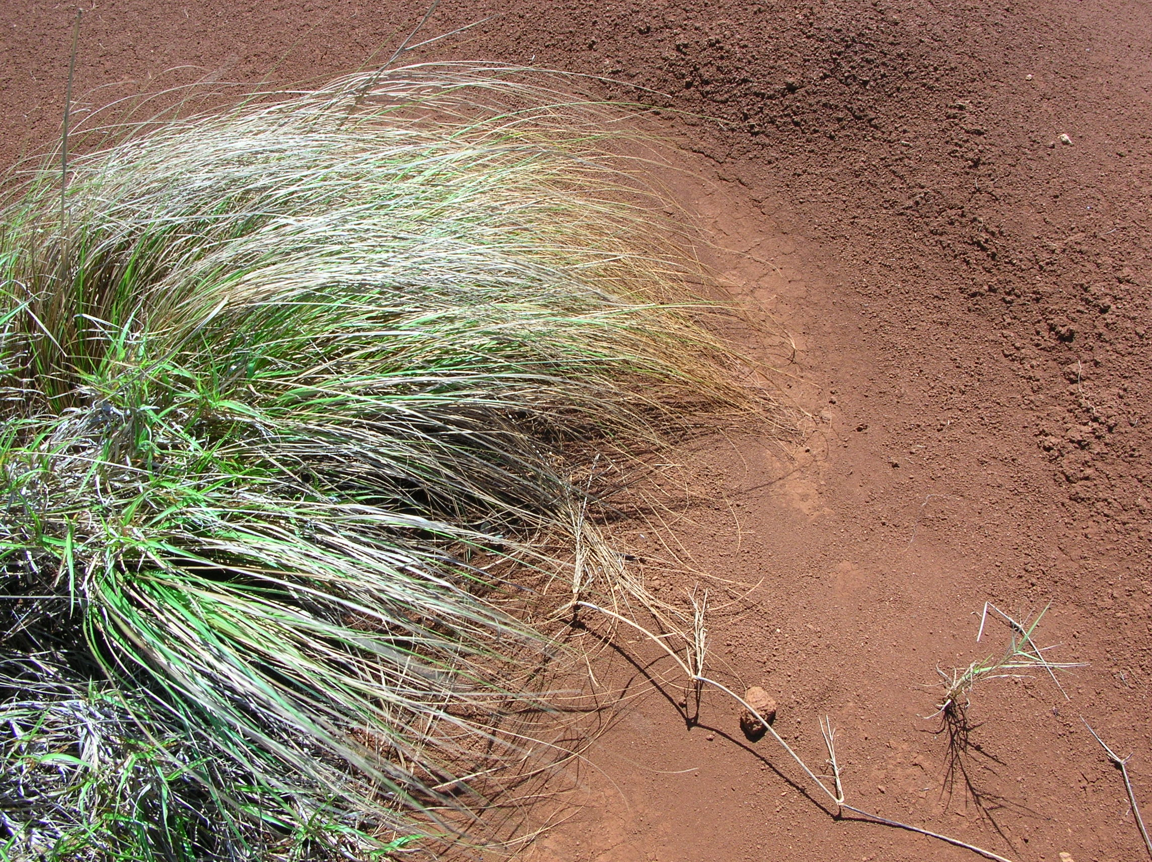 Eragrostis curvula (habit). Location: Kahoolawe, Uprange